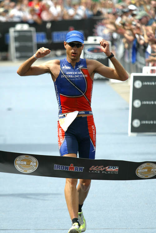 Simon Lessing crossing the finish line at Ironman Lake Placid.